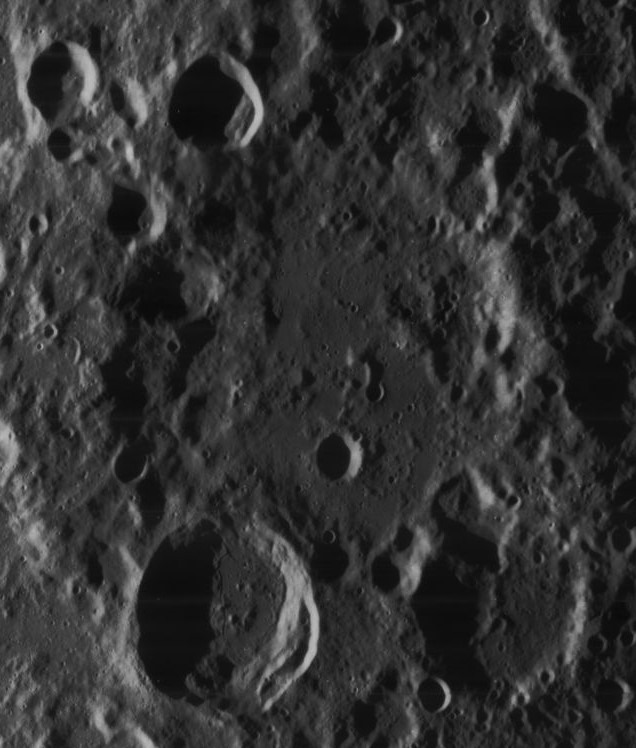 Oblique view centered on Riemann with Beals at lower left, on the moon.